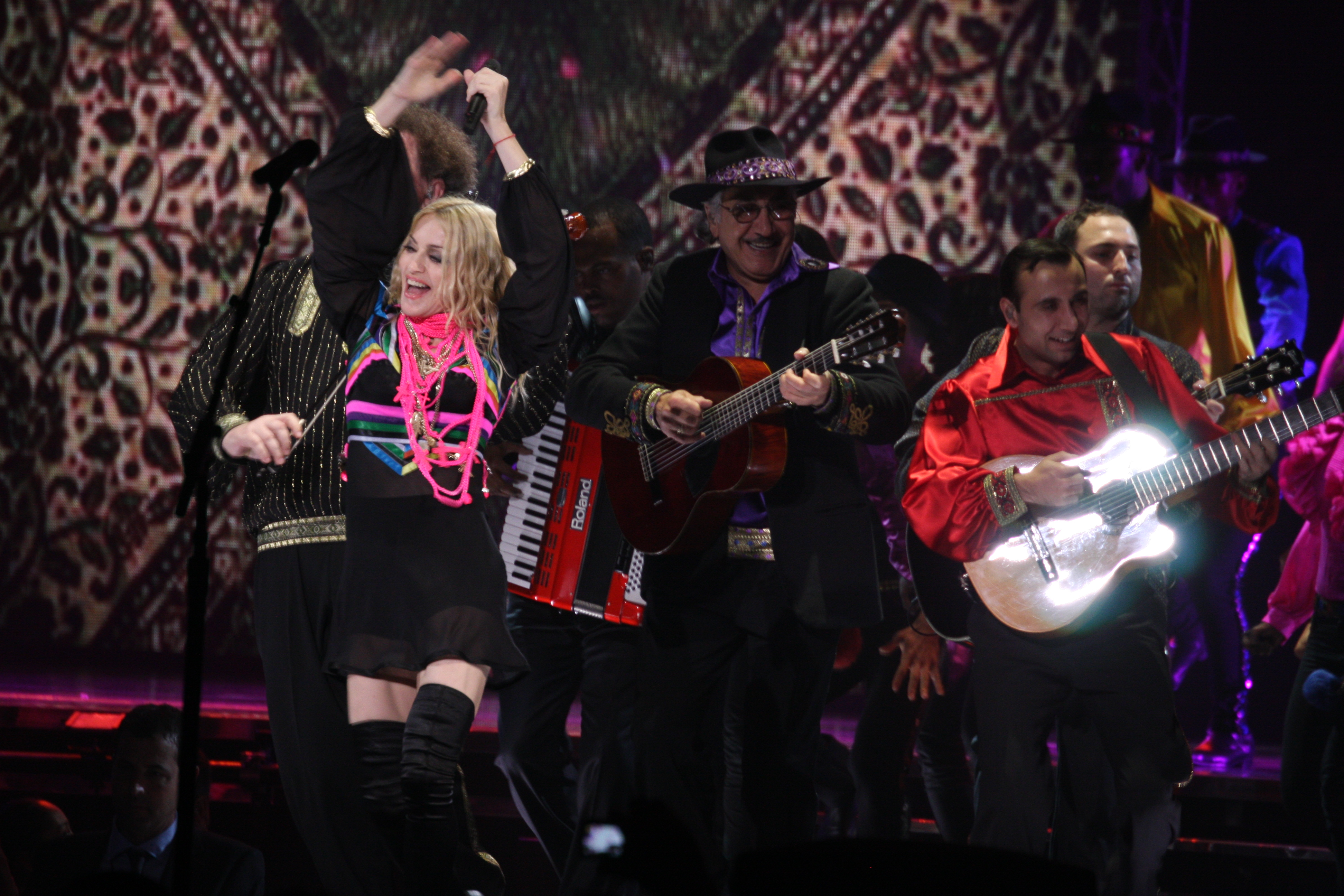 Picture Taken at concert